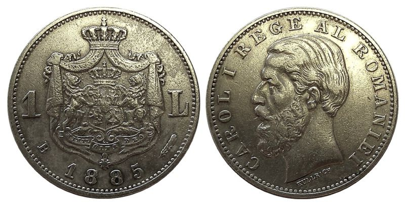 Silver coin - 1885, 1 leu